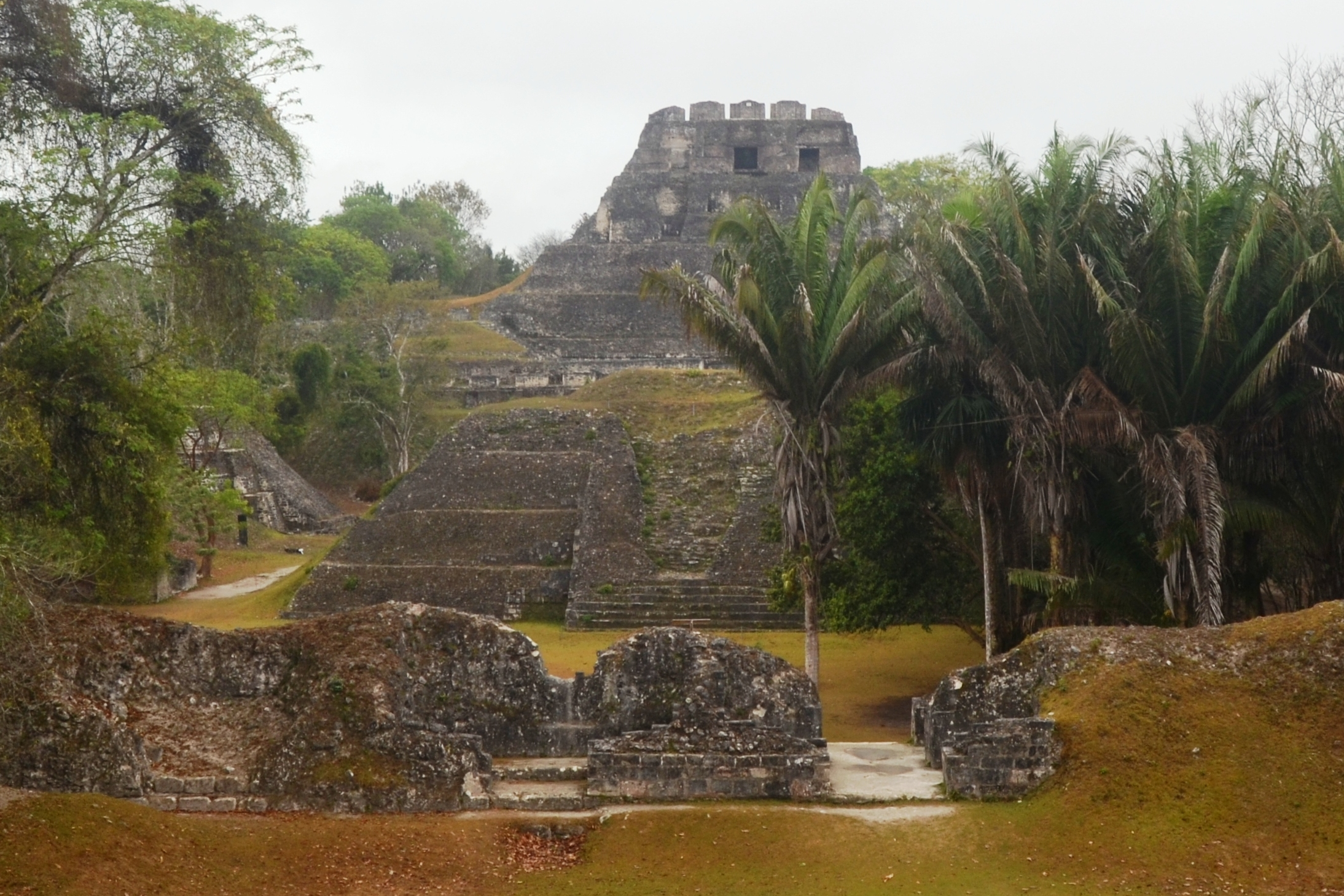 El Catillo Pyramid, Xunantunich, Belize